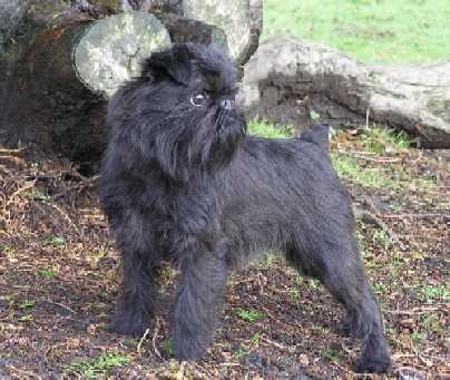 A black Griffon belge with beard